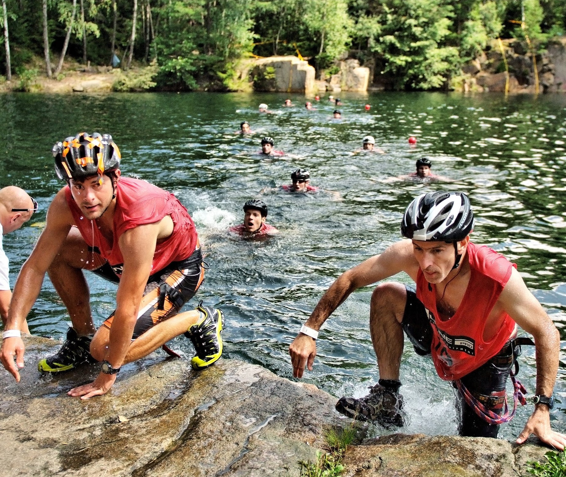 Czech Adventure Race - Teams passing special discipline Bolscross.